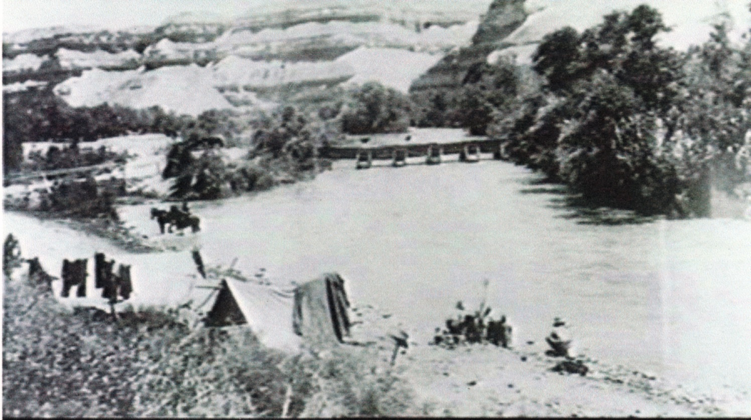 AWM caption : PALESTINE. C. 1917. MEN WASHING CLOTHES AND EXERCISING HORSES IN THE RIVER JORDAN BELOW THEIR MAKESHIFT TENTS ON THE BANK.